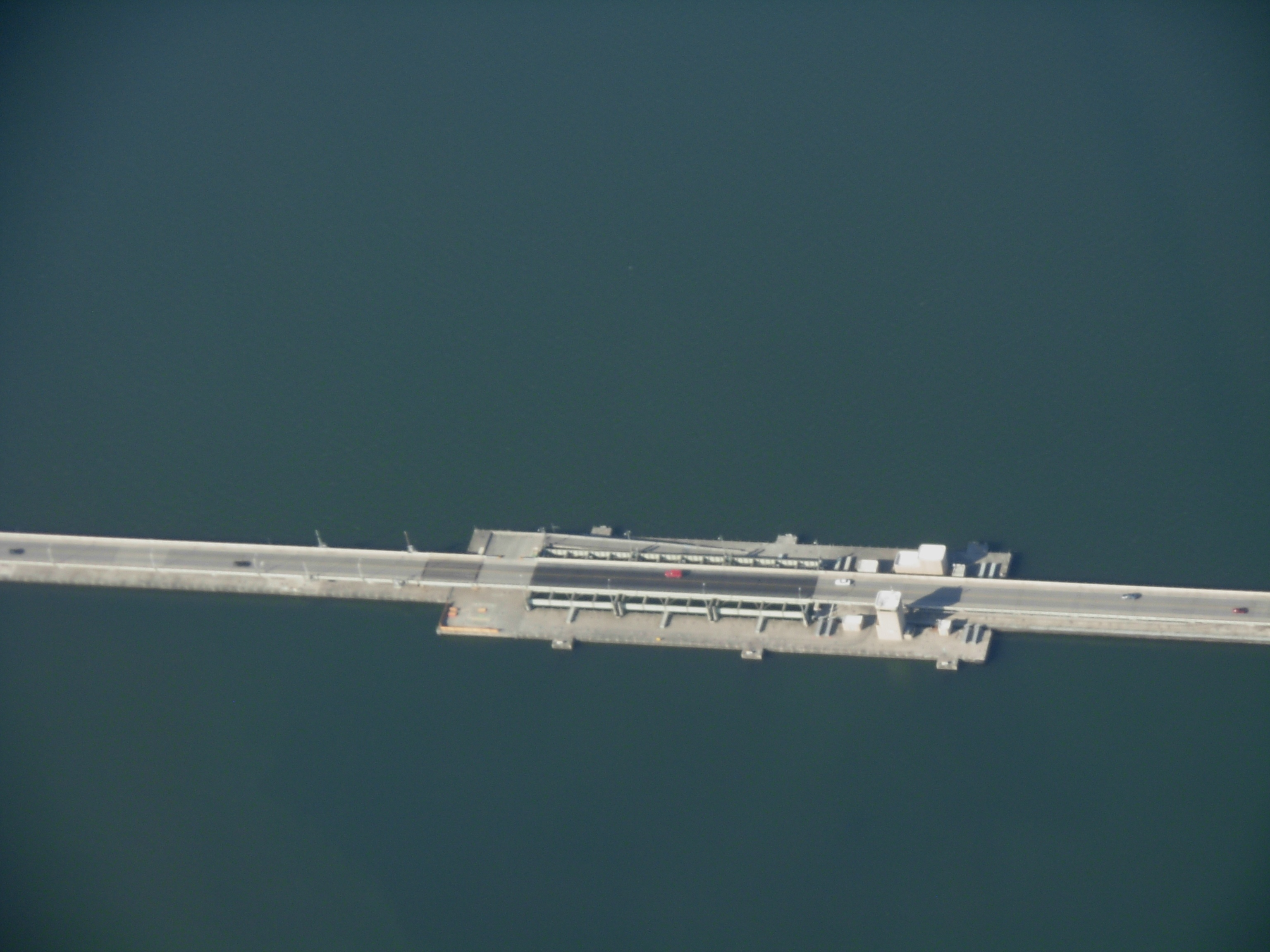 Aerial view, with north towards the top, of the Hood Canal Bridge's west draw-span base. When the bridge needs to be opened for marine traffic, the section of roadway in the center of this photo is raised up, hydraulically, and the section of floating roadway in the righthand third of the photo retracts underneath the raised portion.